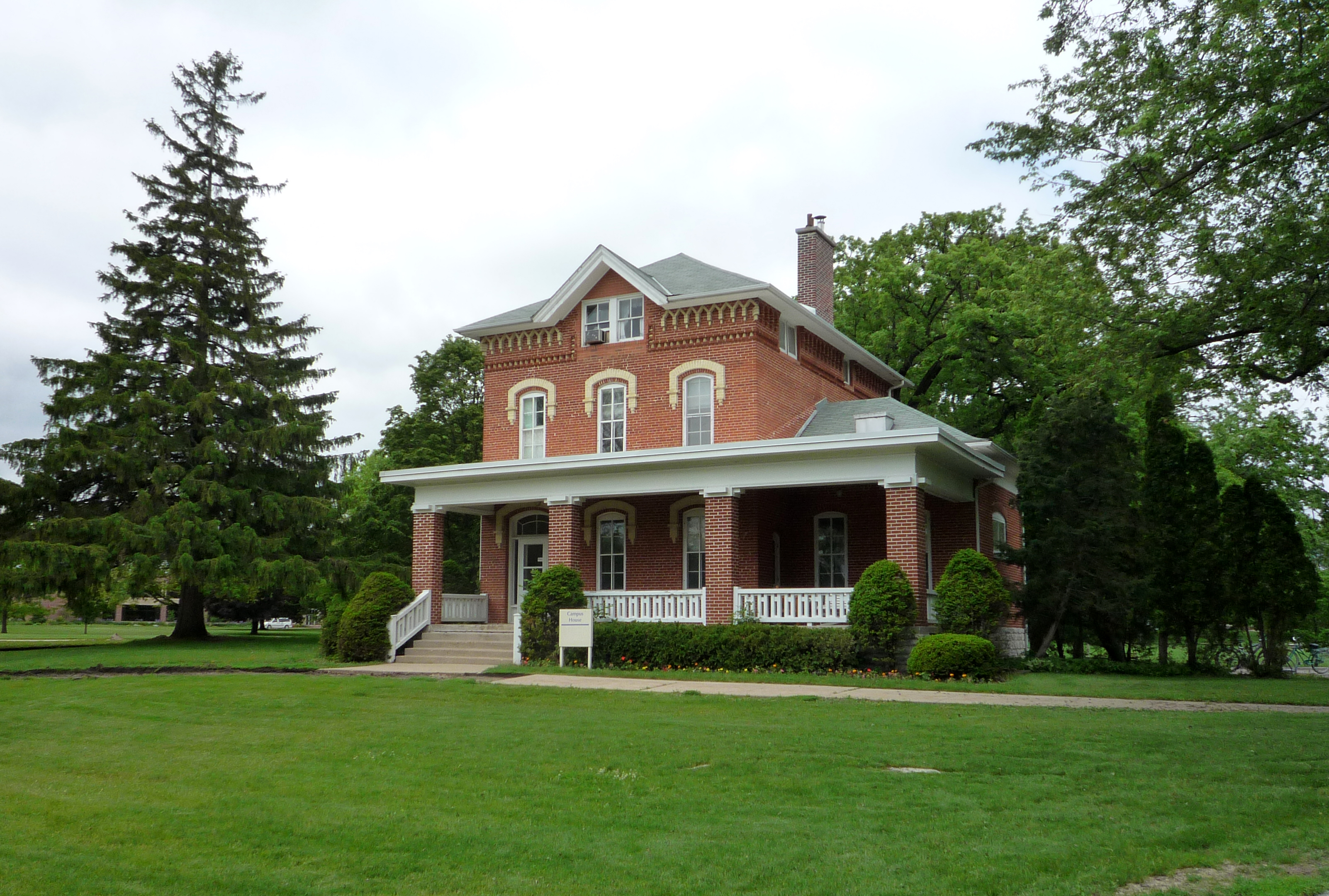 Campus House, Luther College, Decorah, Iowa, USA. Built in 1867, it is the second oldest building on campus, and was originally a parsonage for Nils O. Brandt (1824-1921), pastor of the campus; however it was soon purchased by the College.